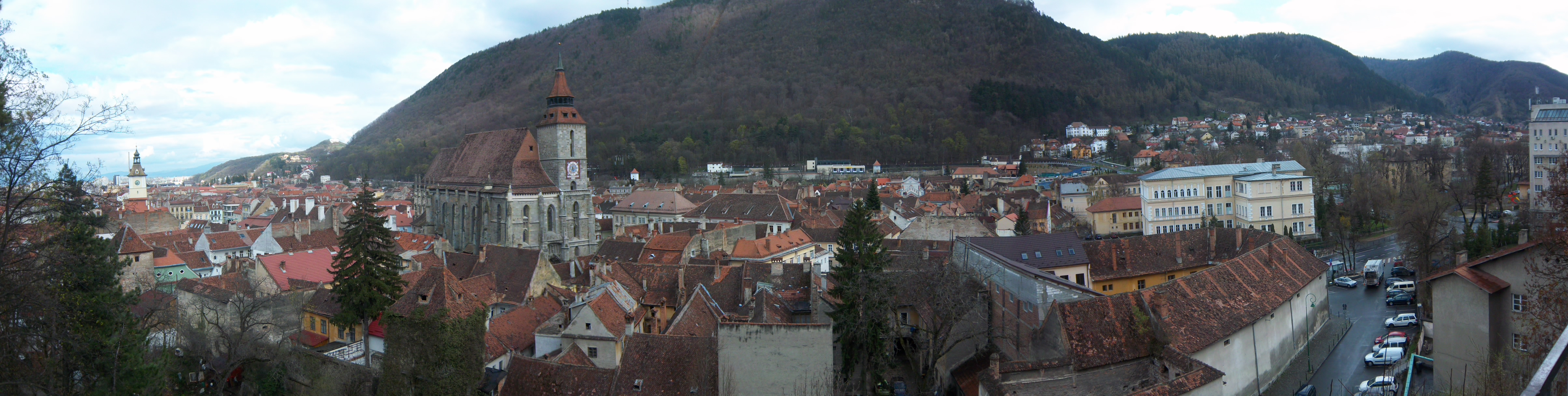 Panoramic view of Brasov.